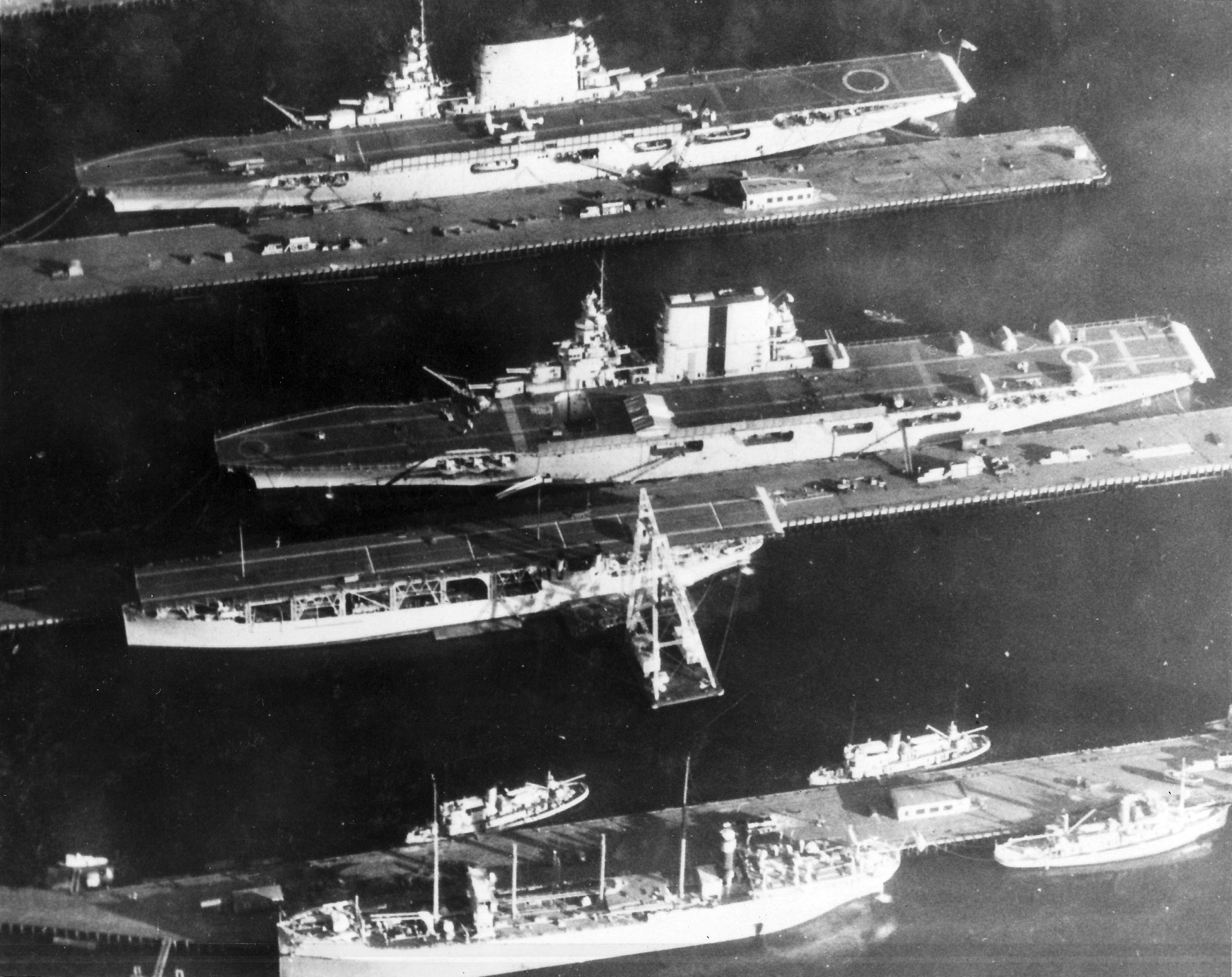 The U.S. aircraft carriers USS Lexington (CV-2) (top), USS Saratoga (CV-3) (middle), and USS Langley (CV-1) (bottom) moored at the Puget Sound Naval Shipyard, Bremerton, Washington (USA), in 1929.